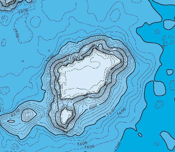 A bathymetric map of seamounts and islands in Micronesia and the Marshall Islands